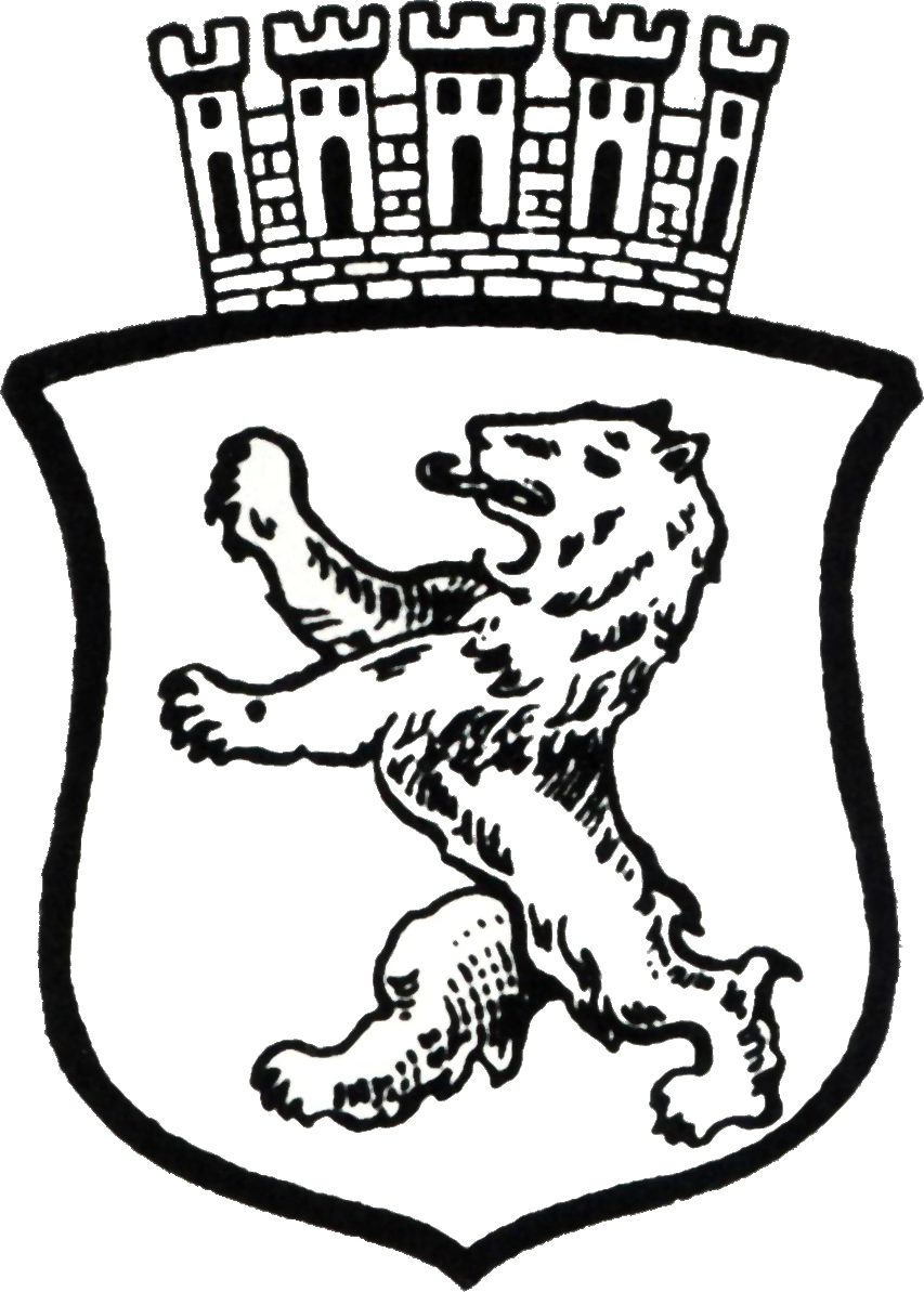 Small Coat of arms of Berlin from 1883.